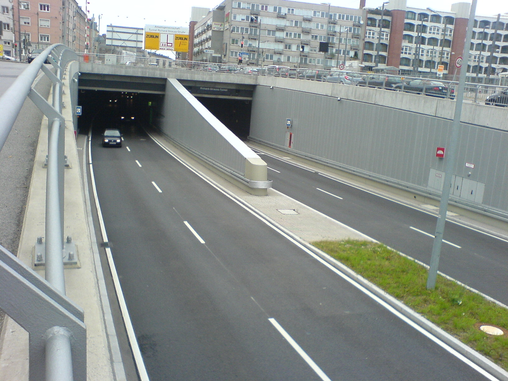 Entrance from Leuchtenbergring to Richard Strauss tunnel (Munich, Bavaria, Germany)